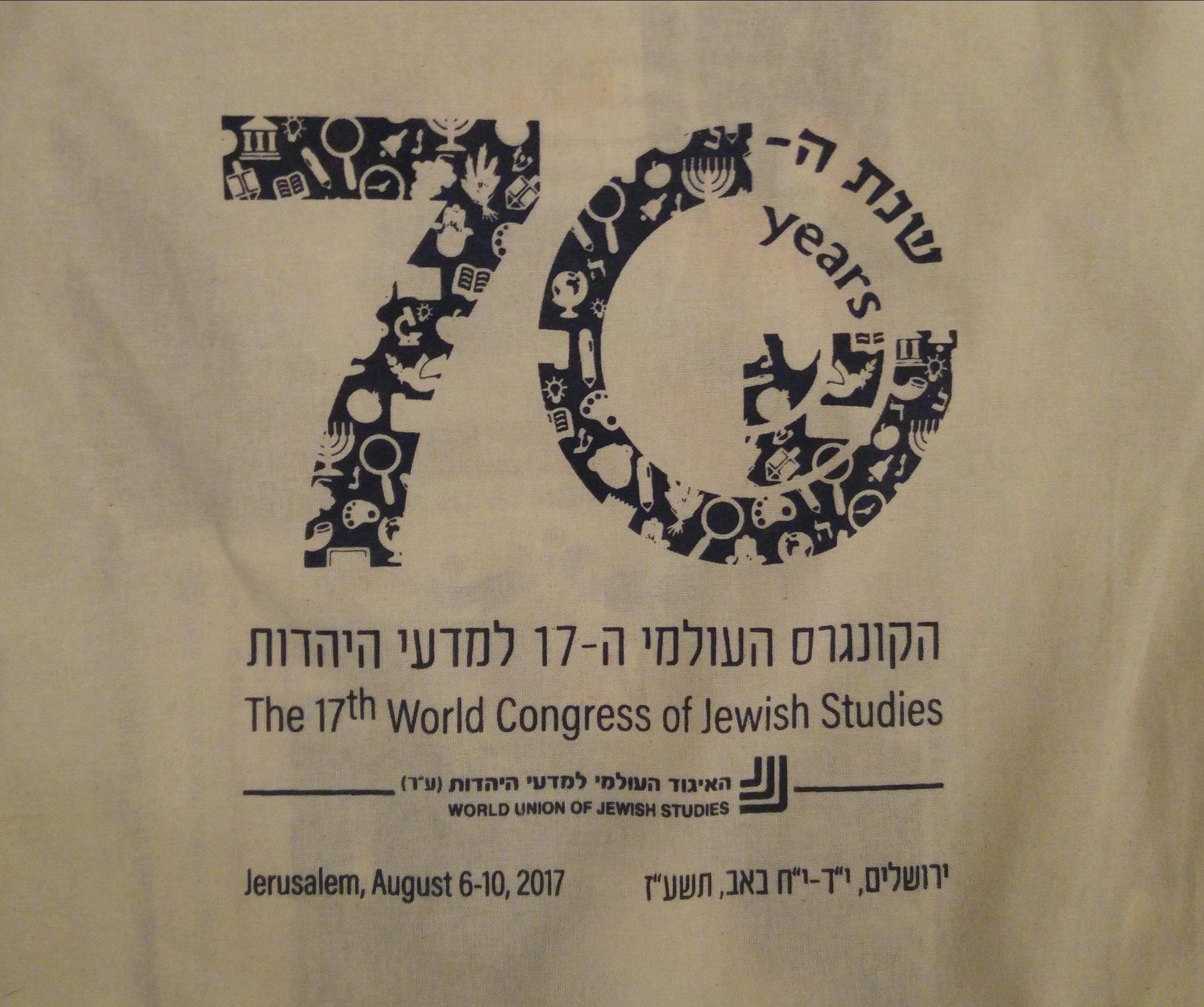 Logo of the 17th World Congress for Jewish Studies